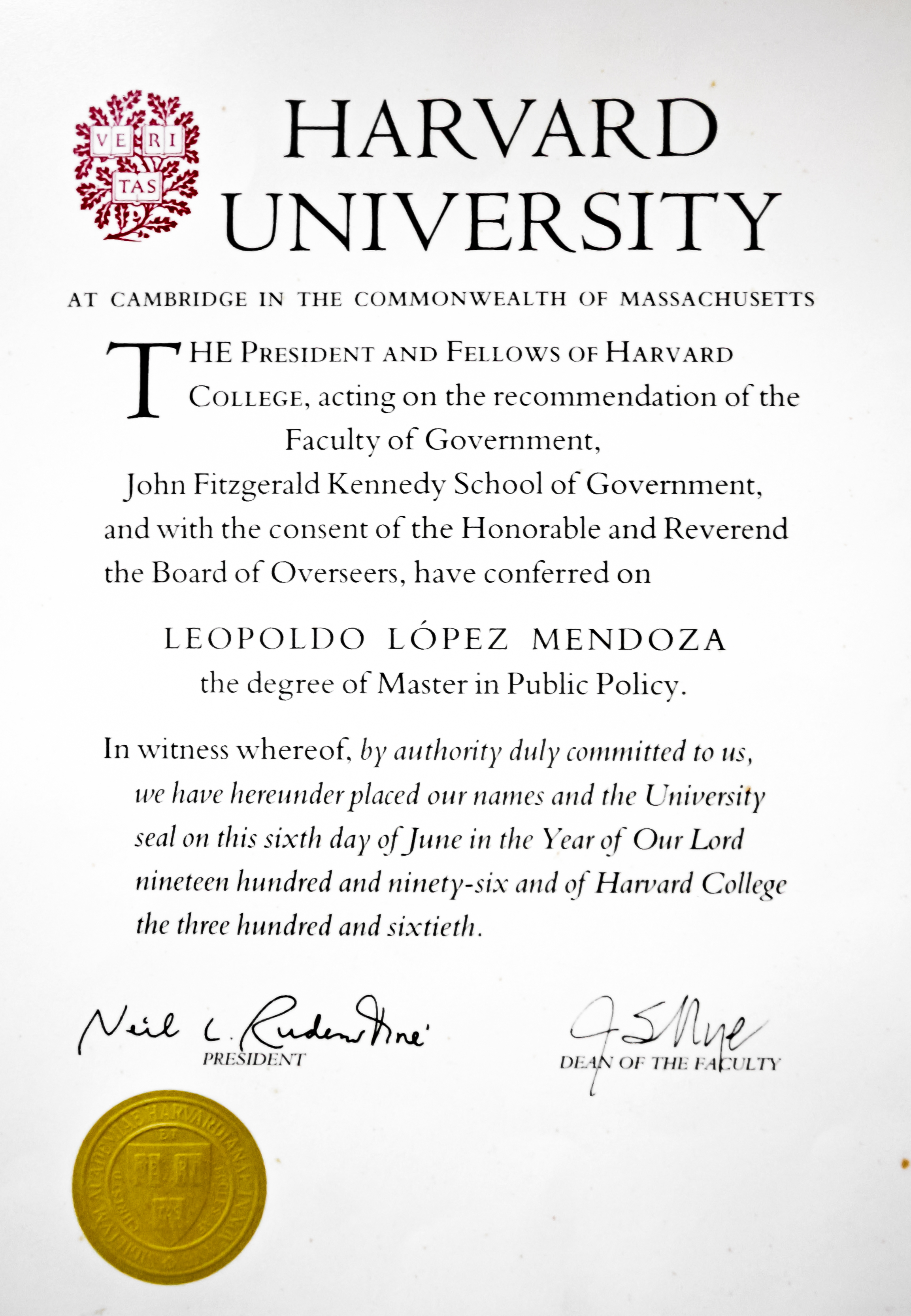 Master of Leopoldo Lopez